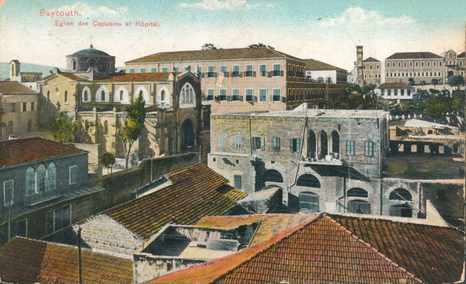 Panoramic view from the Wadi Abu Jemil area in Beirut towards the Serail hill